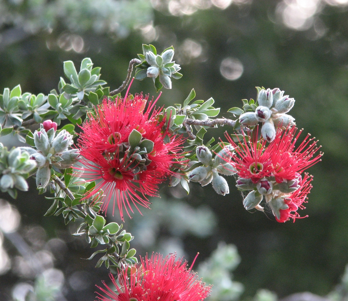 Kunzea pulchella (cultivated, labelled) Maranoa Gardens, Balwyn, Victoria, Australia